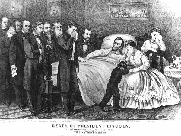 A engraving of President Abraham Lincoln on his deathbed.